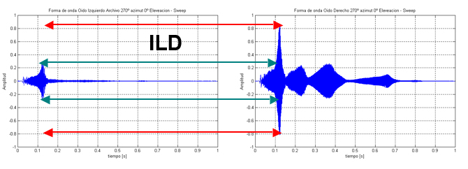 ILD (Interaural Level Difference) between left ear (left graph) and right ear (right graph). Sound source: a sweep from right (270° azimuth 0° elevation)